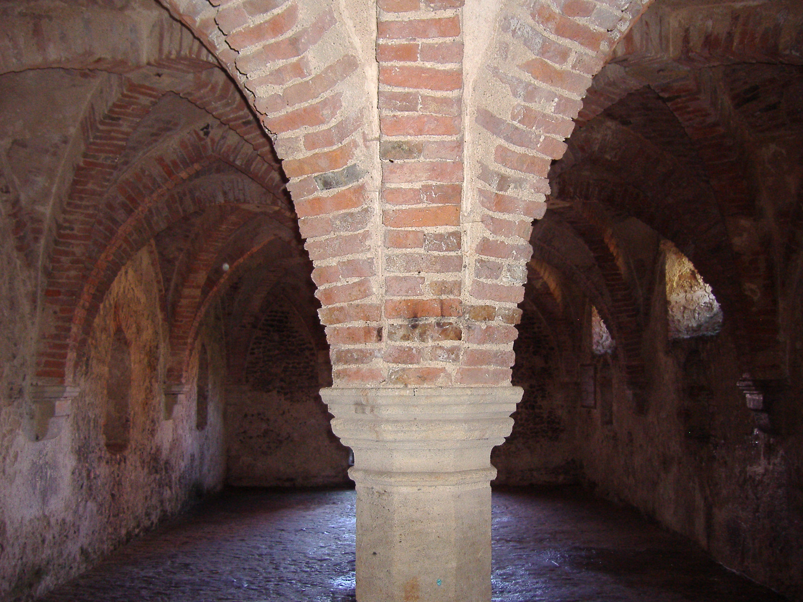 The Undercroft of Blakeney Guildhall 13th October 2007